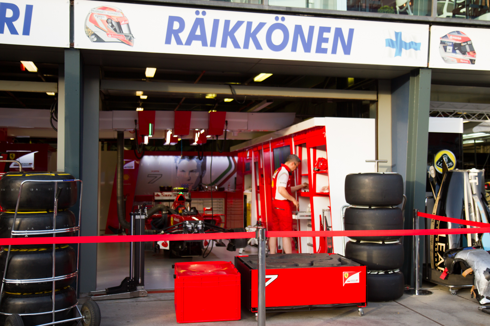 2014 Australian F1 Grand Prix